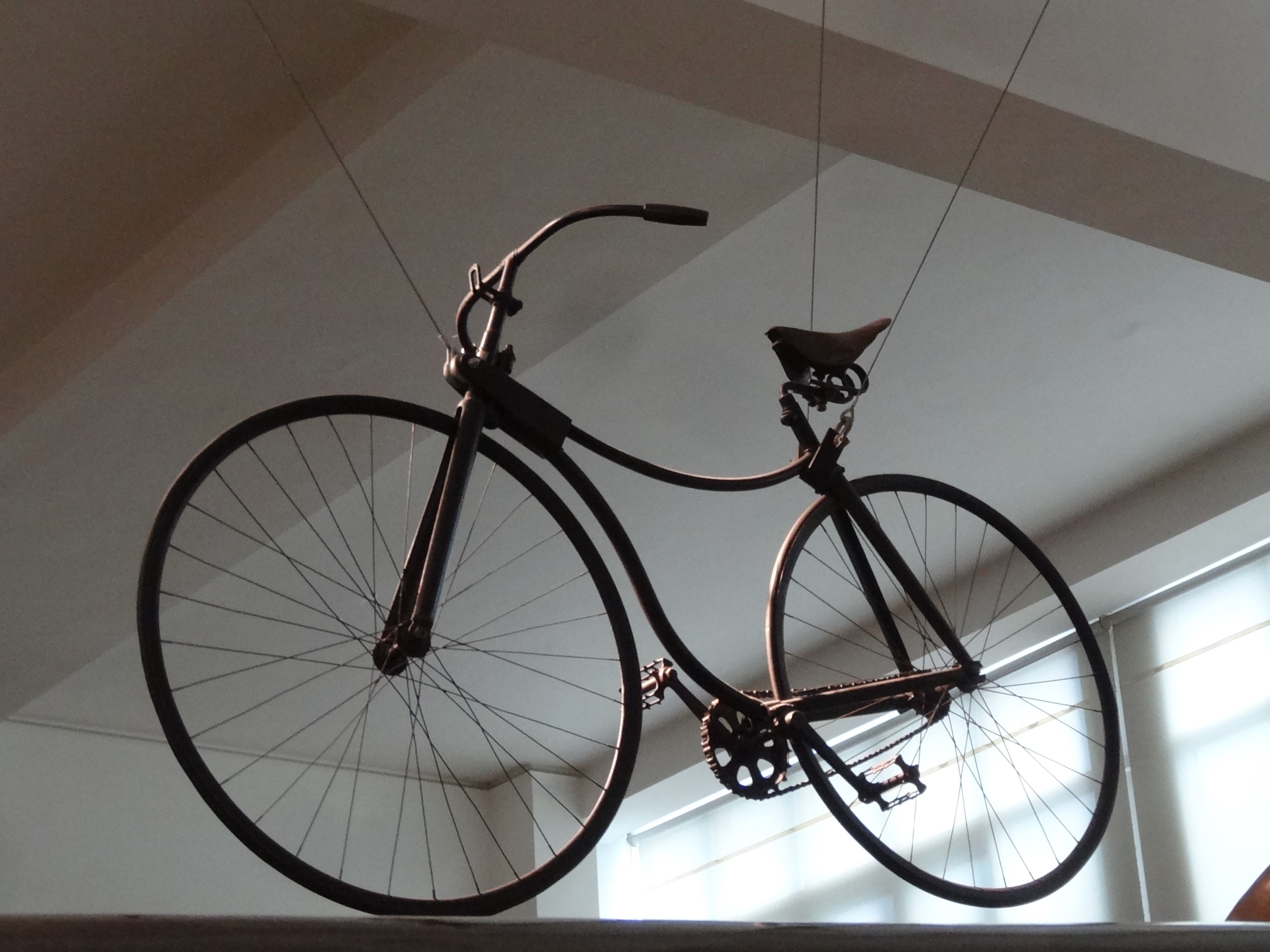 Rover safety bicycle of 1885 in the Science Museum (London)